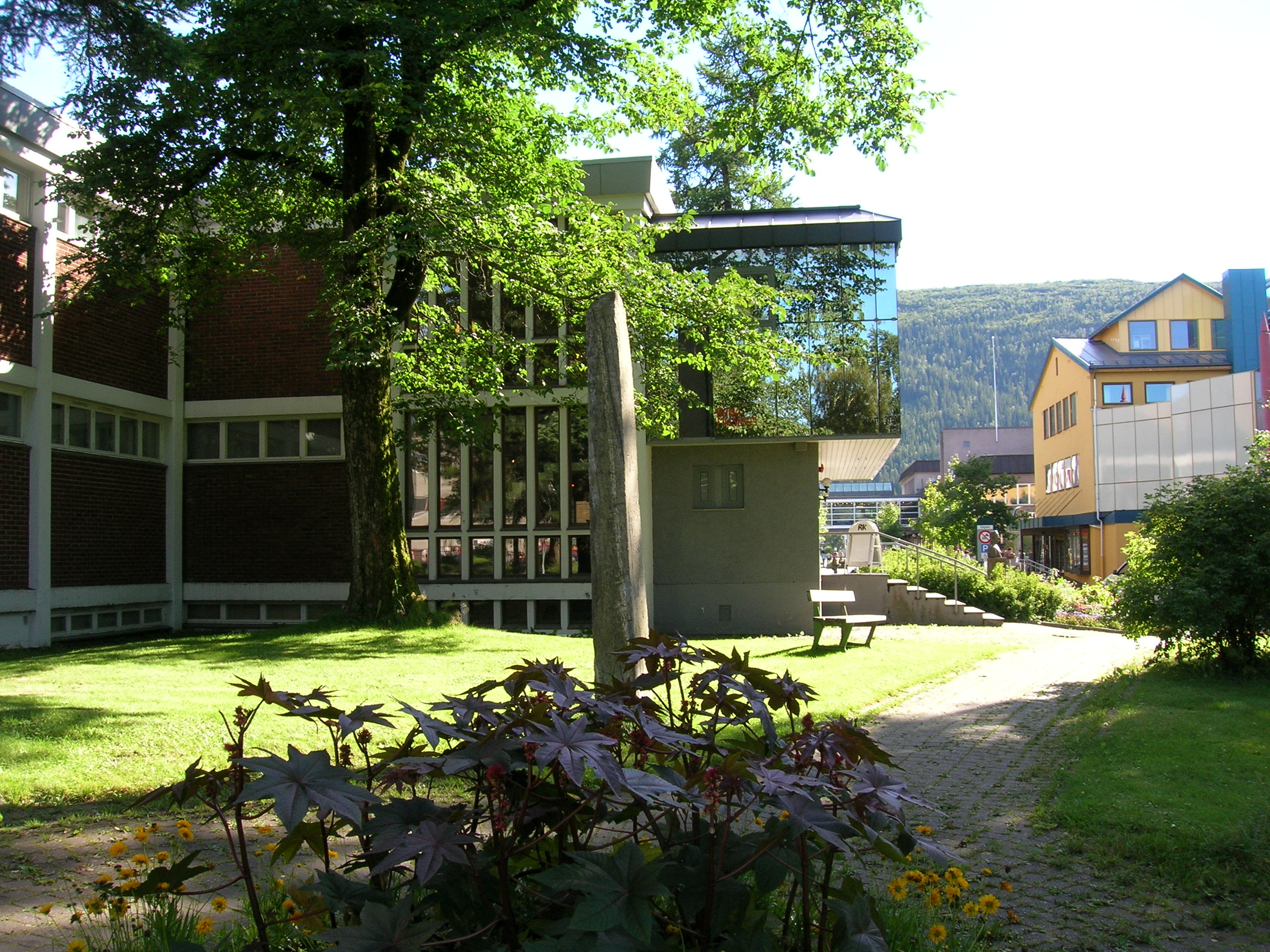 Mo i Rana. Museumsbygningen i sentrum (kulturhistorisk avdeling).Photo taken on August 24, 2005 with a NIKON Coolpix 5600 5,1 Megapixel camera.